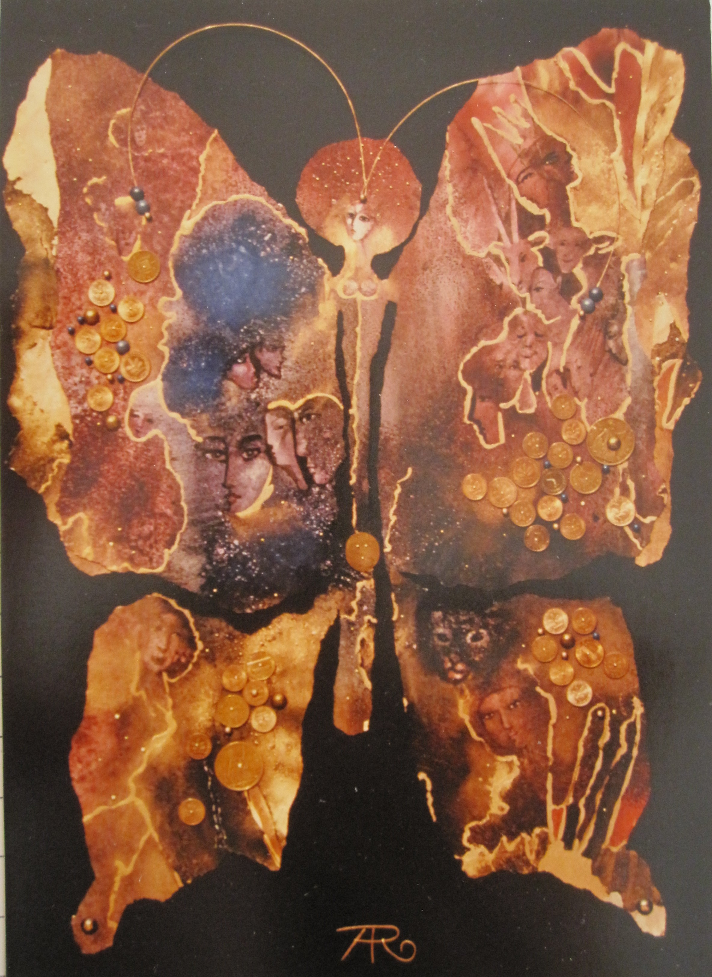 Pinnage, special art work by Aiga Rasch, 1982, LEPIPOPTERA PECUNIARIS